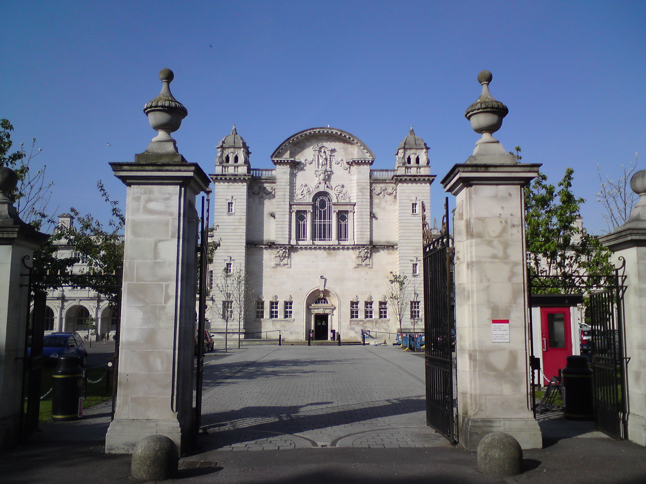 Cardiff University Main Building Rear